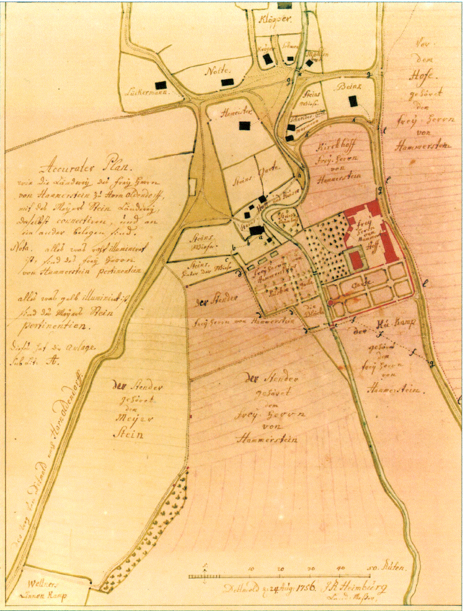 Map of Hornoldendorf near Detmold, Germany, 1756